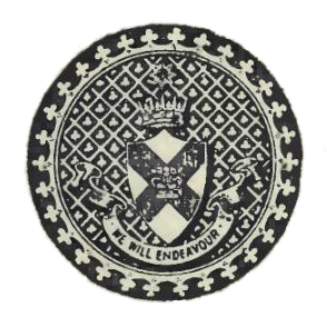 Seal of the Royal Irish Academy, taken from the Tain Bo Cuailnge ed. John Strachan and j.G. O'Keeffe.